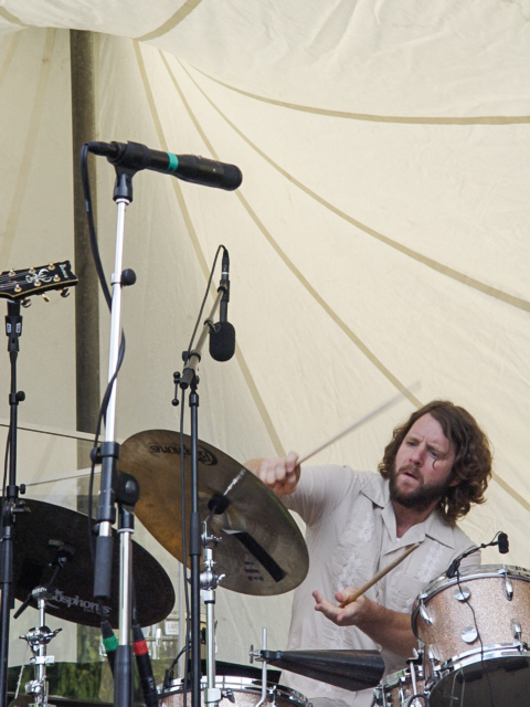 Billy Martin @ Chopenhagen Jazz Festival 2007. Performing with John Scofield and Chris Wood.